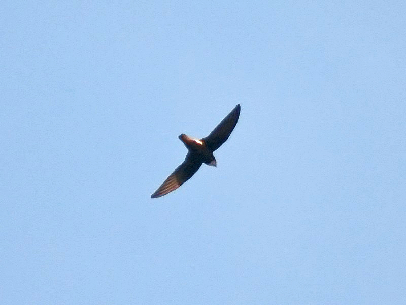 House swift Apus affinis in Kolkata, West Bengal, India.